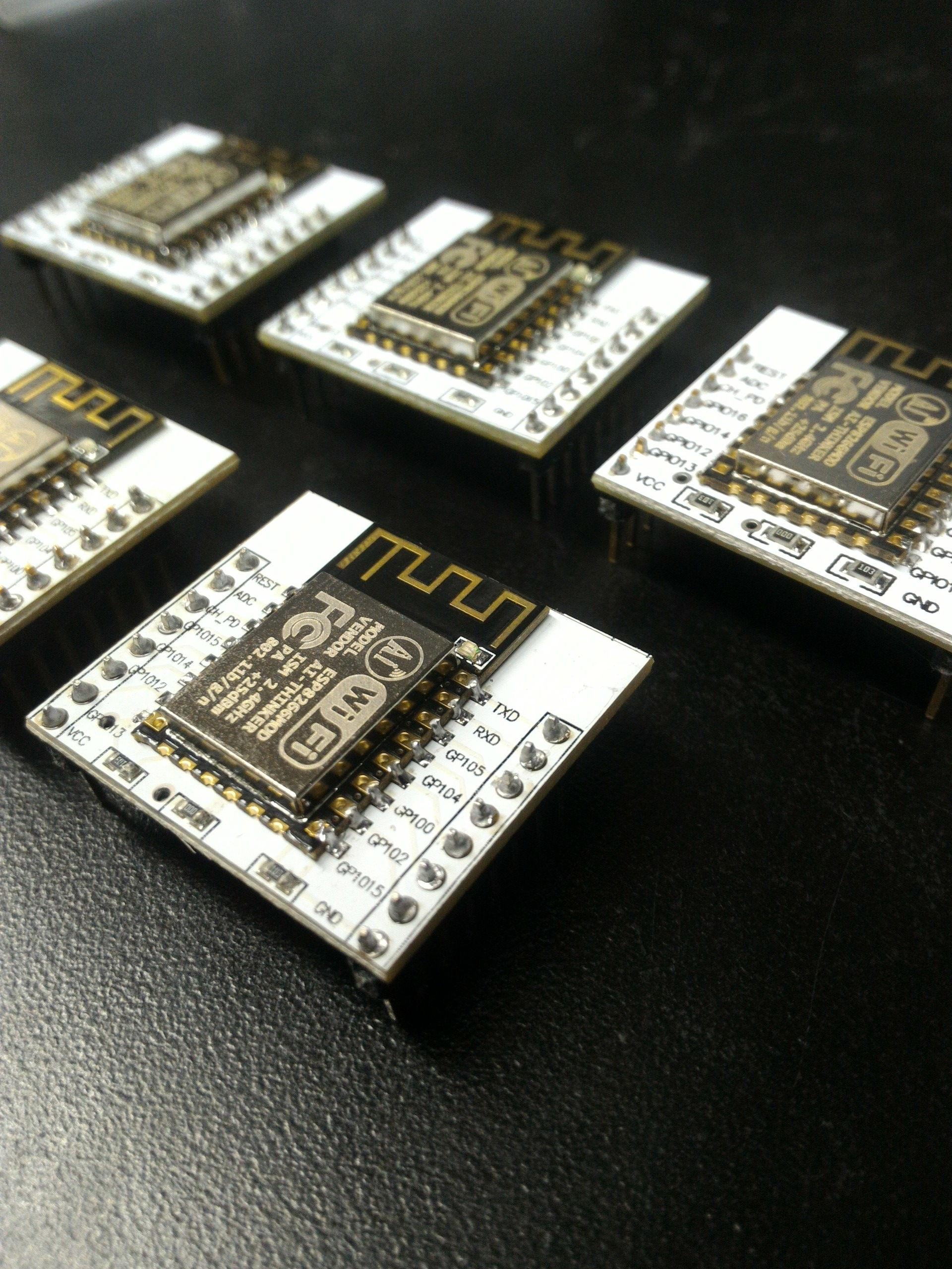 ESP8266 units from Ai-Thinker mounted on adapters